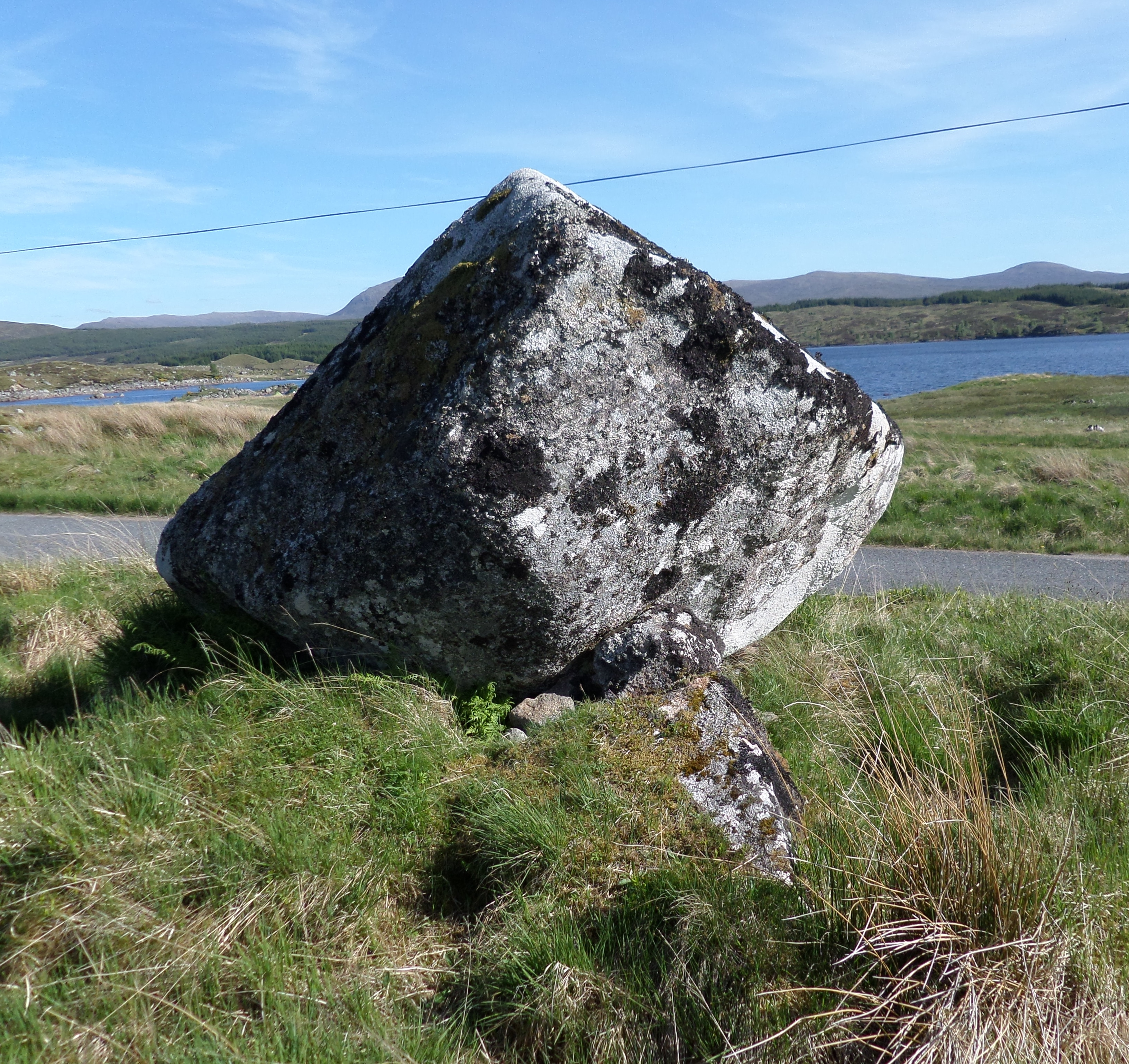 The Broken Heart Stone, Rannoch Moor, Perth & Kinross, Scotland. View from the north.